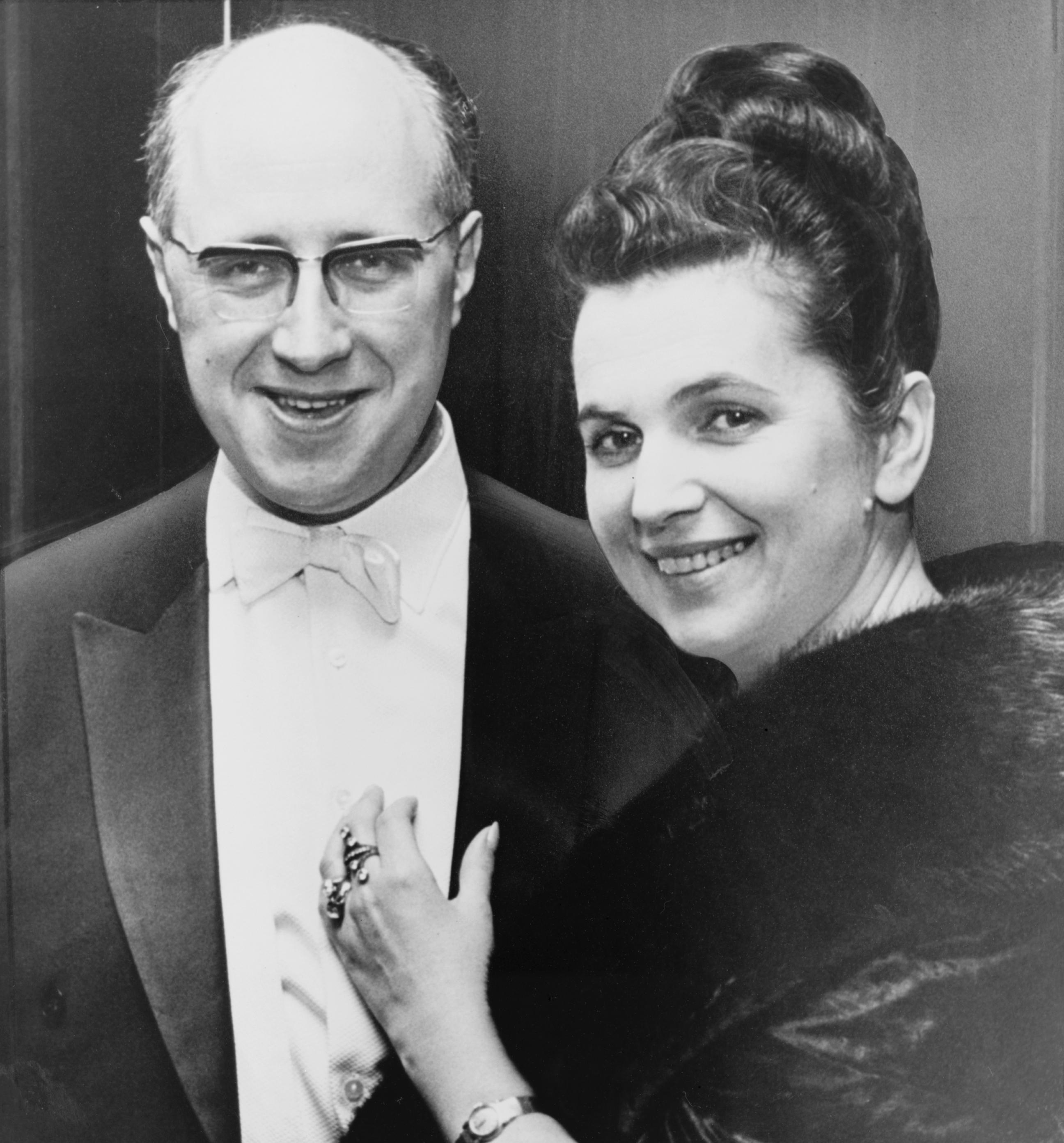 Mstislav Rostropovich, half-length portrait, with Bolshoi opera star Galina Vishnevskaya / World-Telegram & Sun photo by Stanley Wolfson.